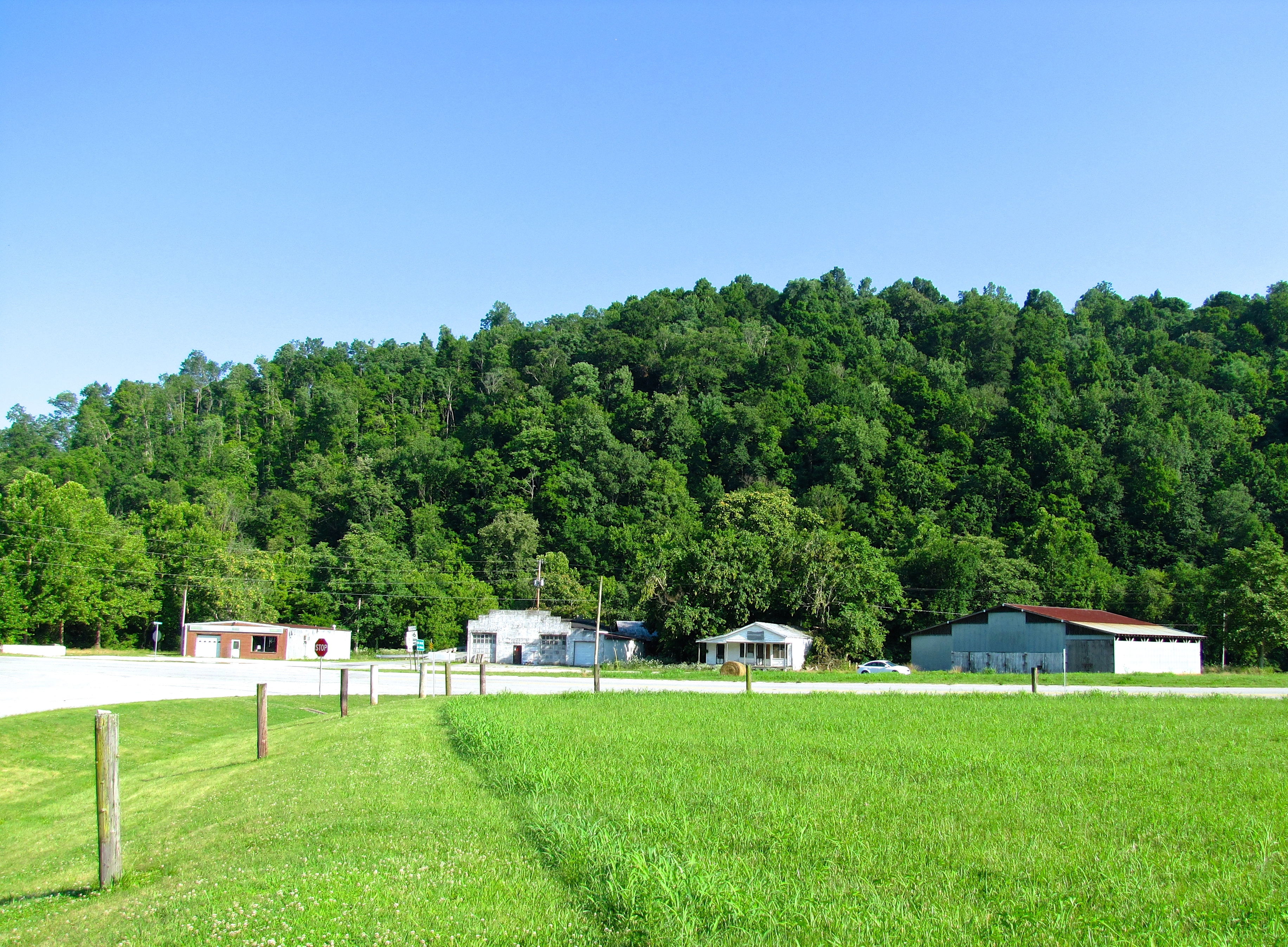 Buildings at the intersection of State Route 56 and State Route 151 in North Springs in Jackson County, Tennessee, United States.